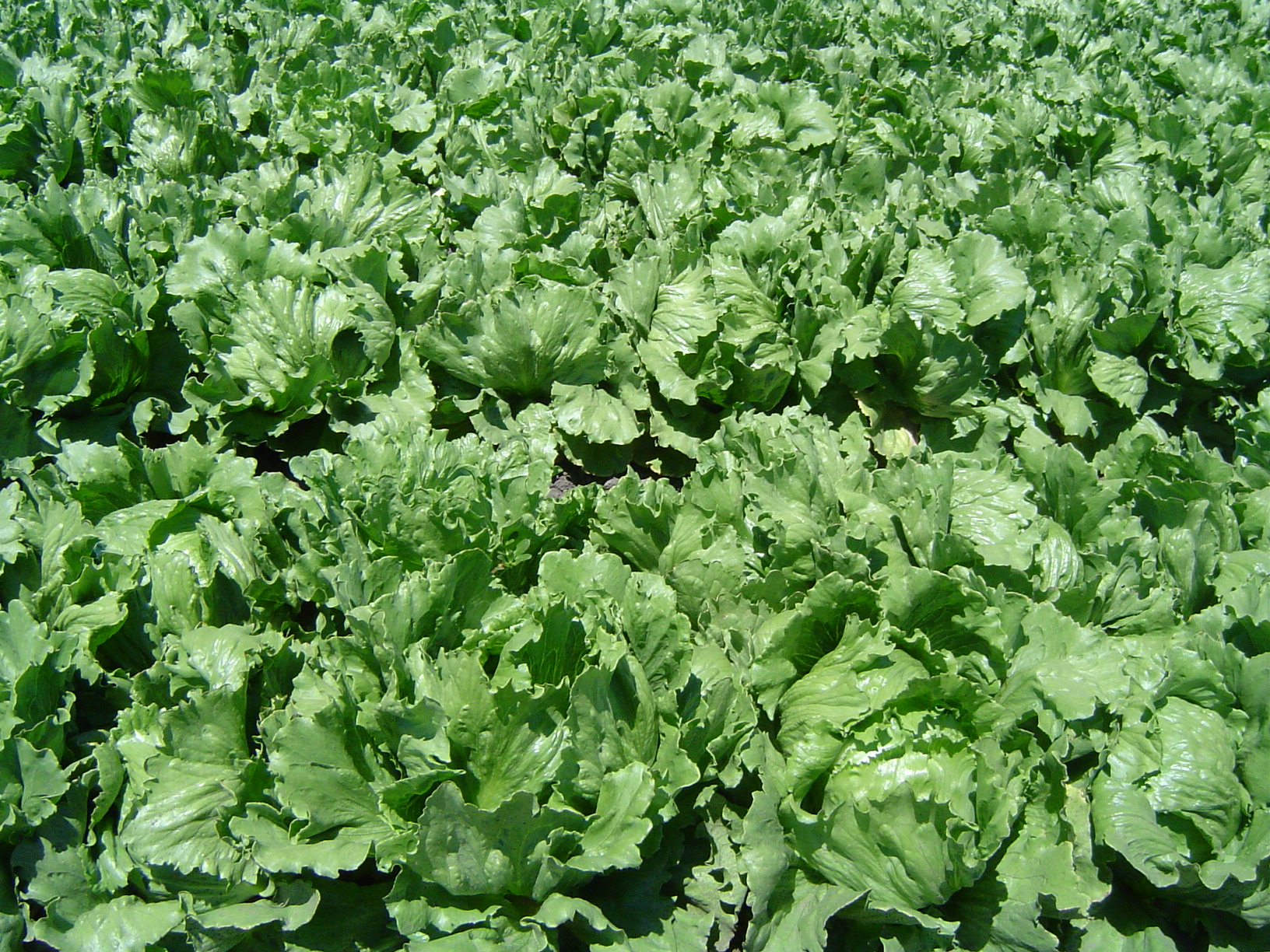 Close-up of an iceberg lettuce field in Northern Santa Barbara County between Santa Maria and Lompoc, on July 31, 2005.